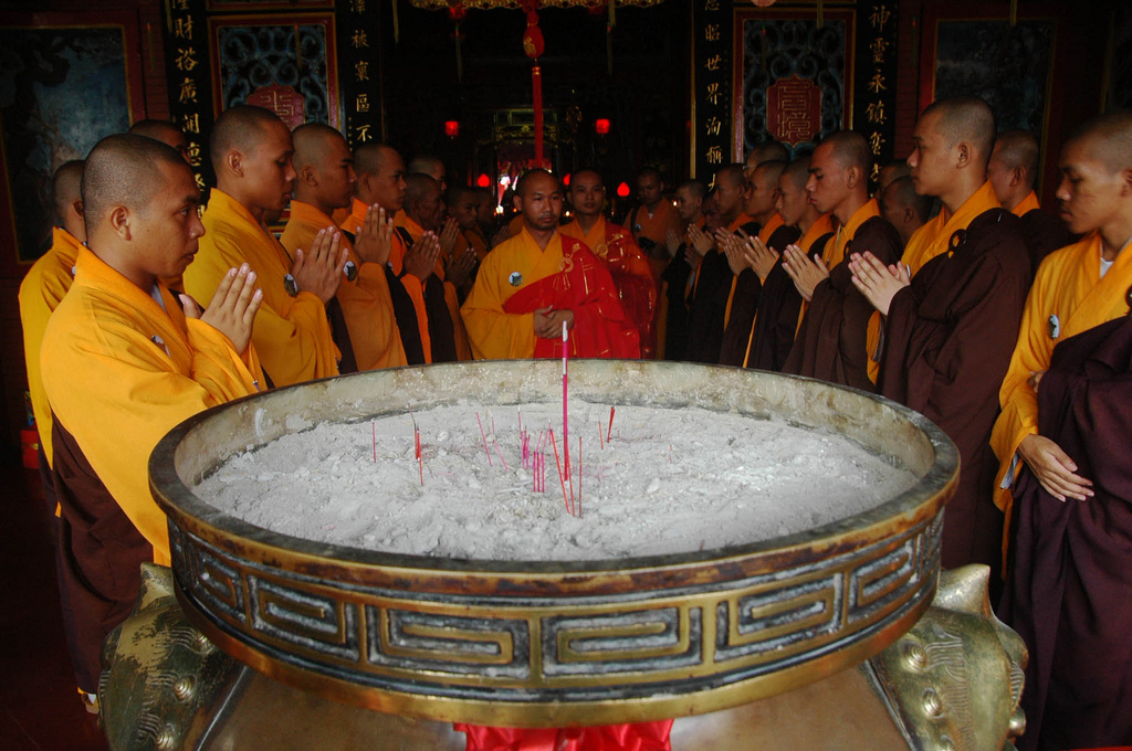 Monks pray before Vessak Day 2010 in Magelang, Central Java, Indonesia (May, 26, 2010)